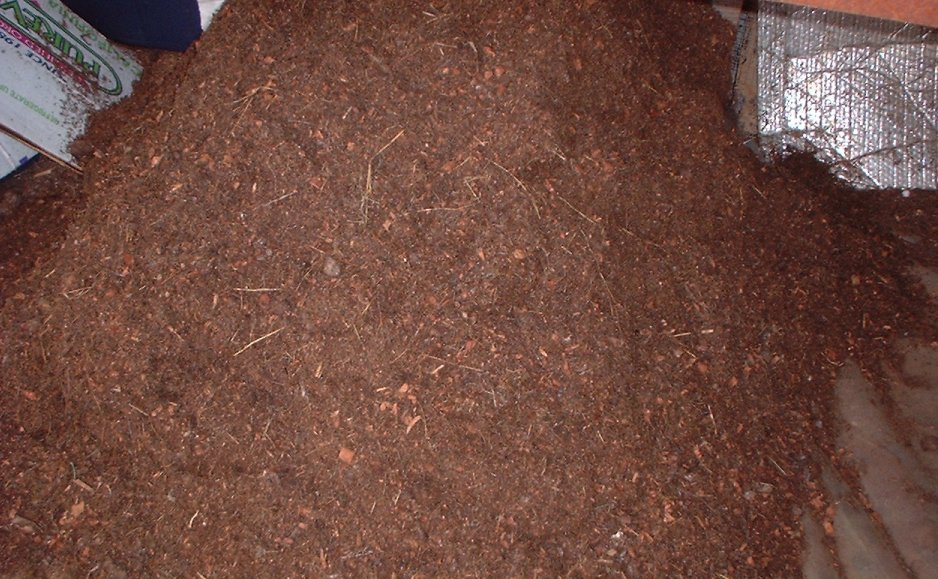 Hot compost stable bedding output (3 weeks)